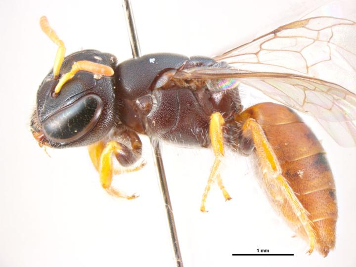 Pachyprosopis eucalypti female